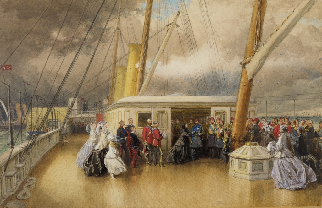 Queen Victoria investing the Ottoman Sultan Abdülaziz I with the Order of the Garter in 1867